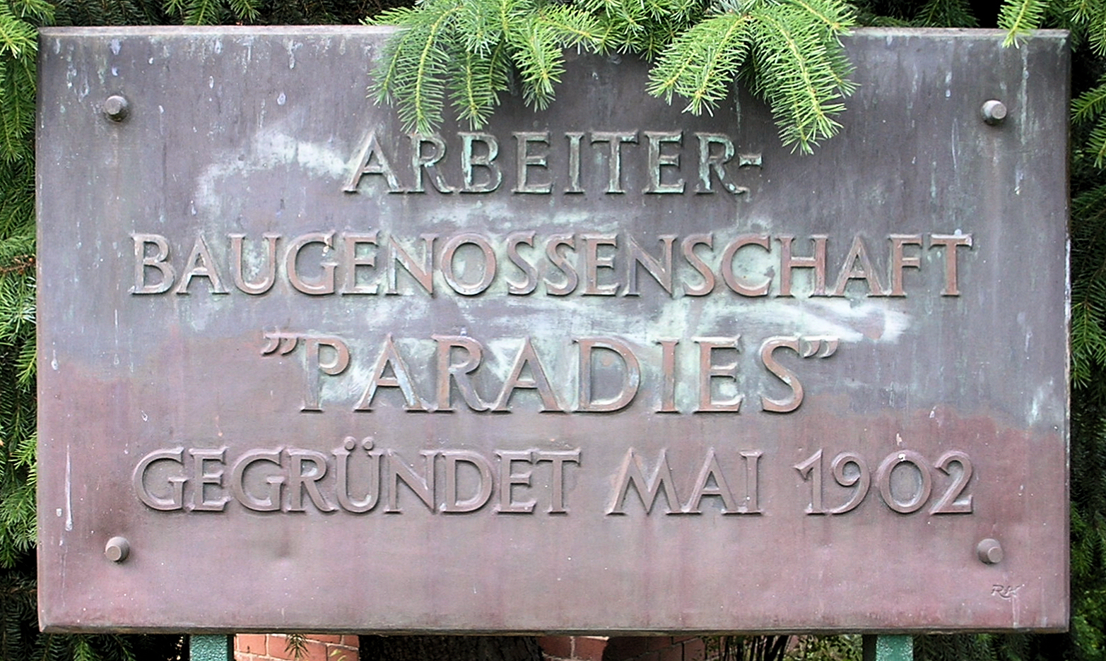 Memorial plaque, Arbeiter Baugenossenschaft Paradies, Buntzelstraße 119, Berlin-Bohnsdorf, Germany Koordinate:52°24′4″N 13°33′41″E / 52.40111°N 13.56139°E